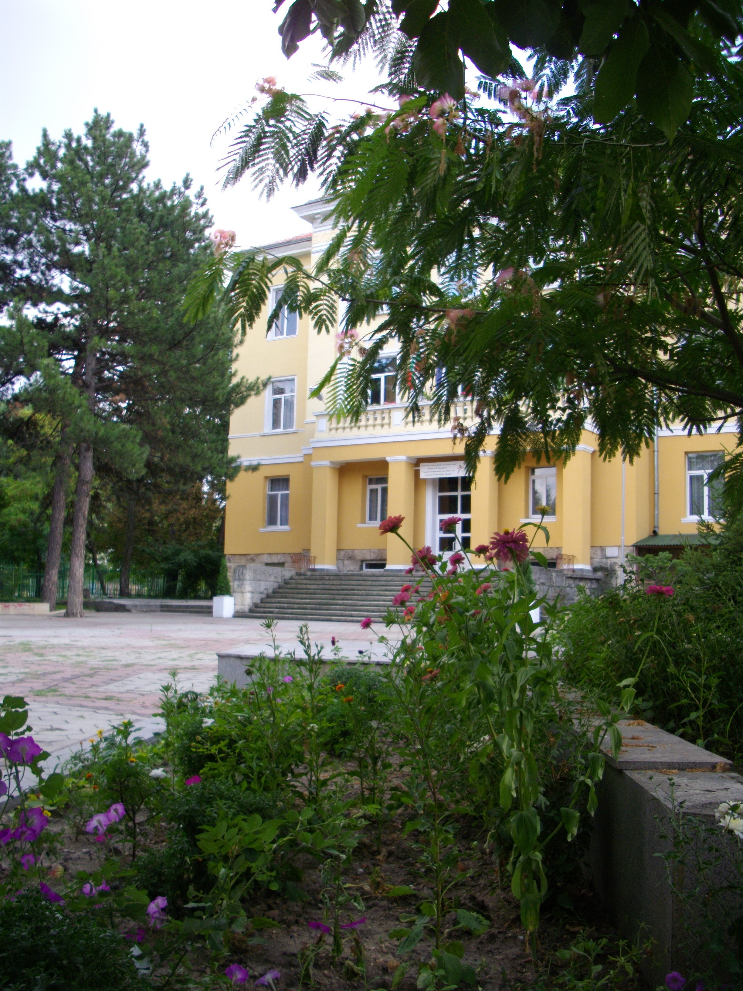 Гимназия с преподаване на чужди езици "Никола Й. Вапцаров" - Шумен